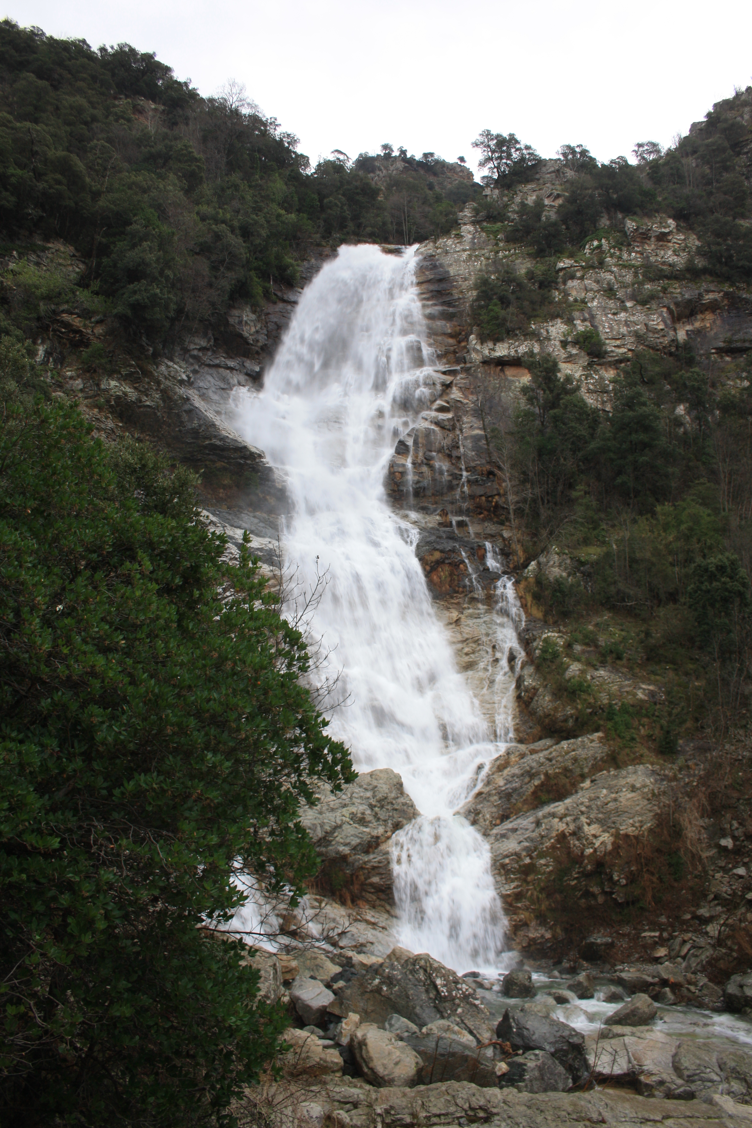 Voile de la Mariée, near Bocognano